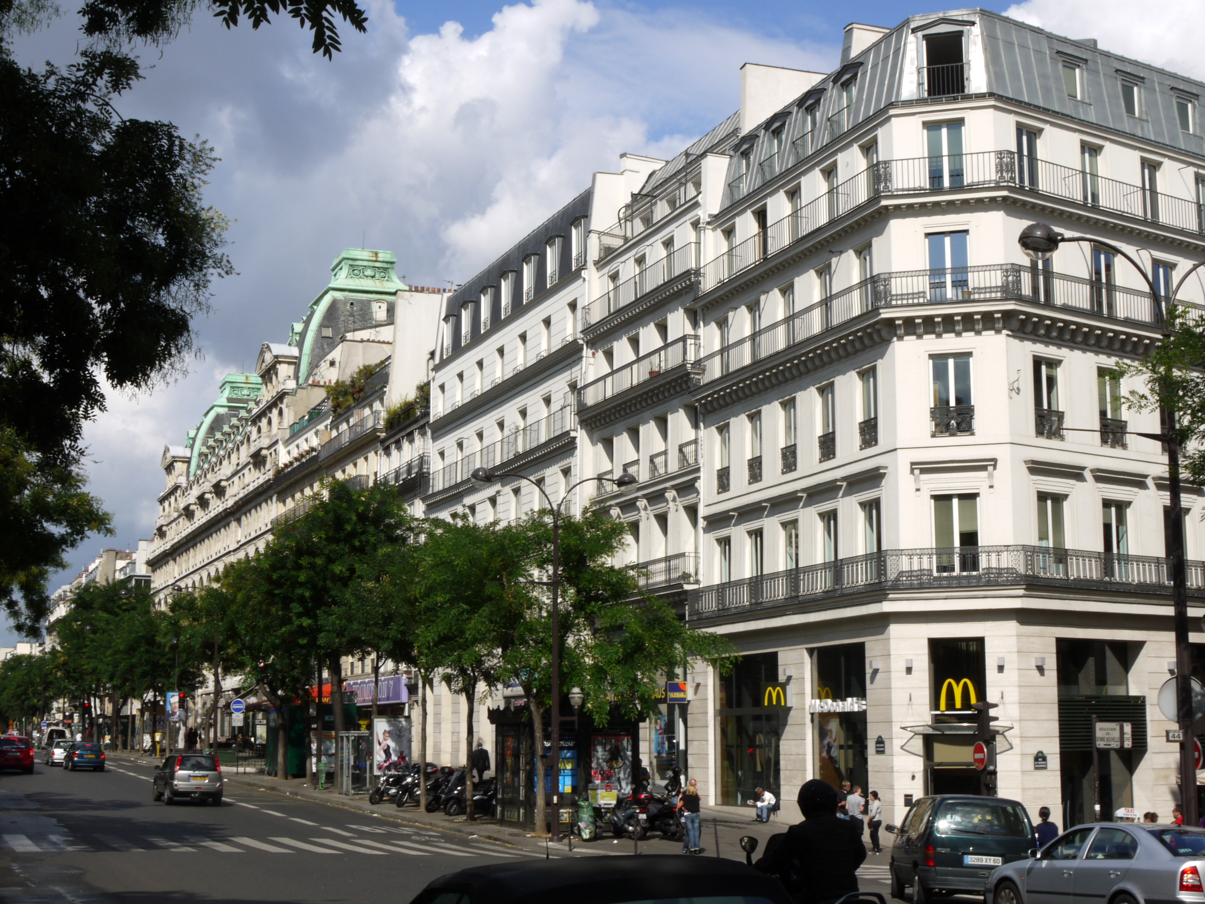 Boulevard Poissonnière, Paris